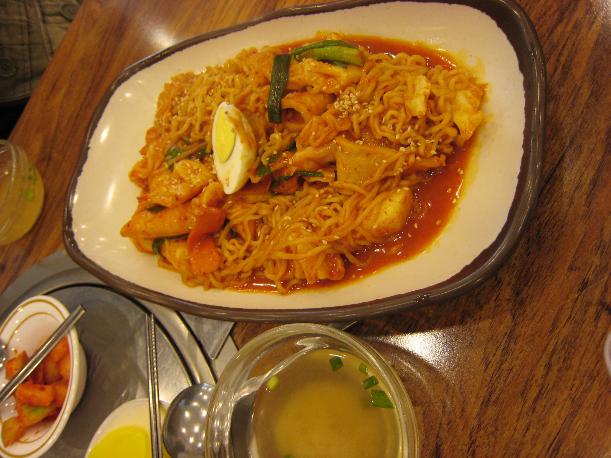 rice cake with noodles @ myeong-dong - 4000 won